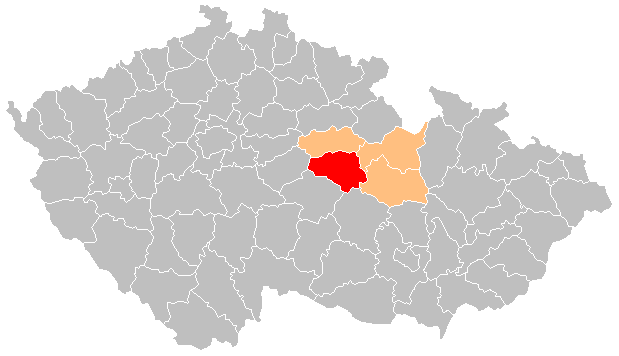 Chrudim District within Pardubice Region. Current borders of districts since January 1, 2007.